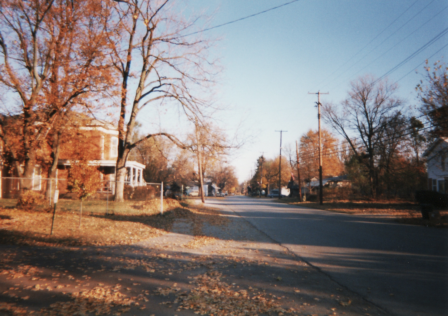 Atumnal view of Huntertown, Allen County, Indiana.